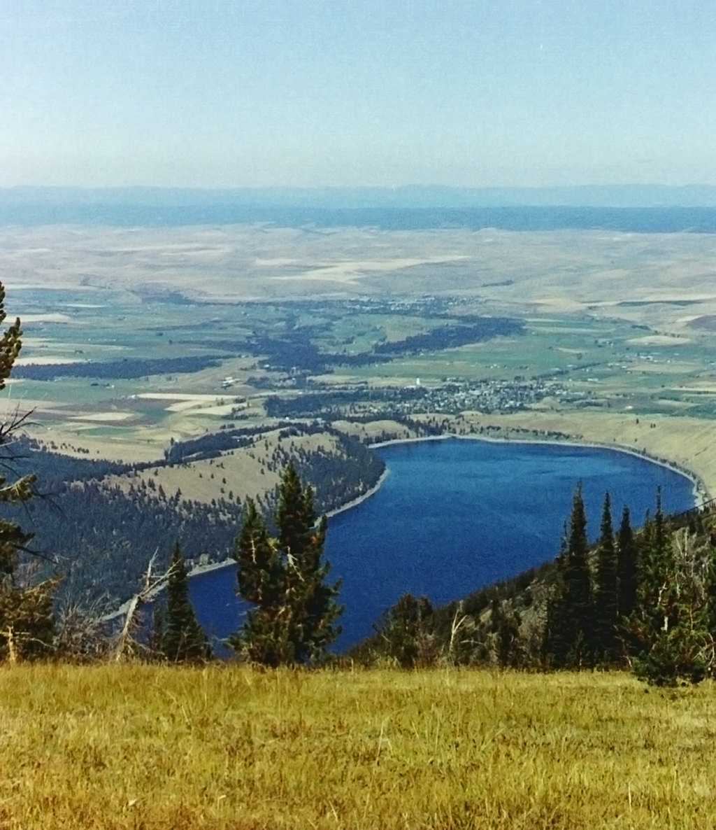 Wallowa Lake and the town of Joseph, seen from the top of Mt Howard (there's a tramway to the top), part of the Wallowa Mountains of northeast Oregon. On the horizon are the Blue Mountains. T took this one on our trip to Yellowstone a few years ago.